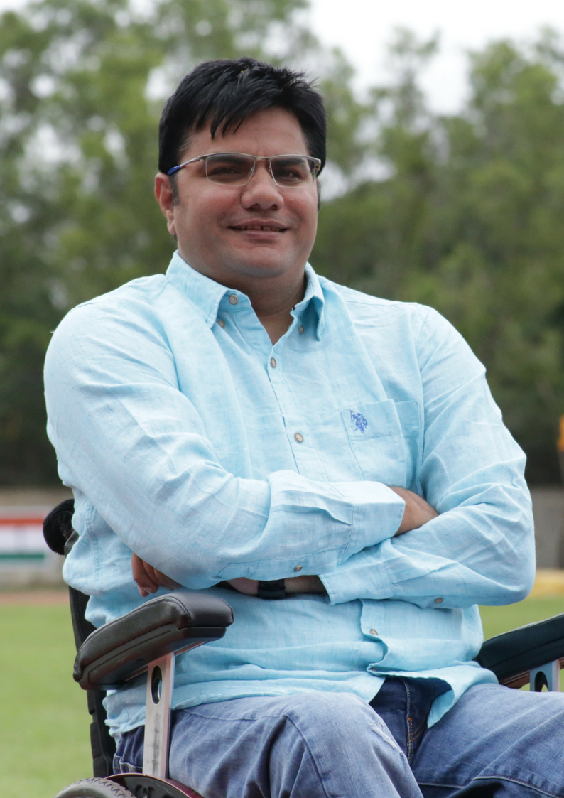 Amith during a photo shoot.